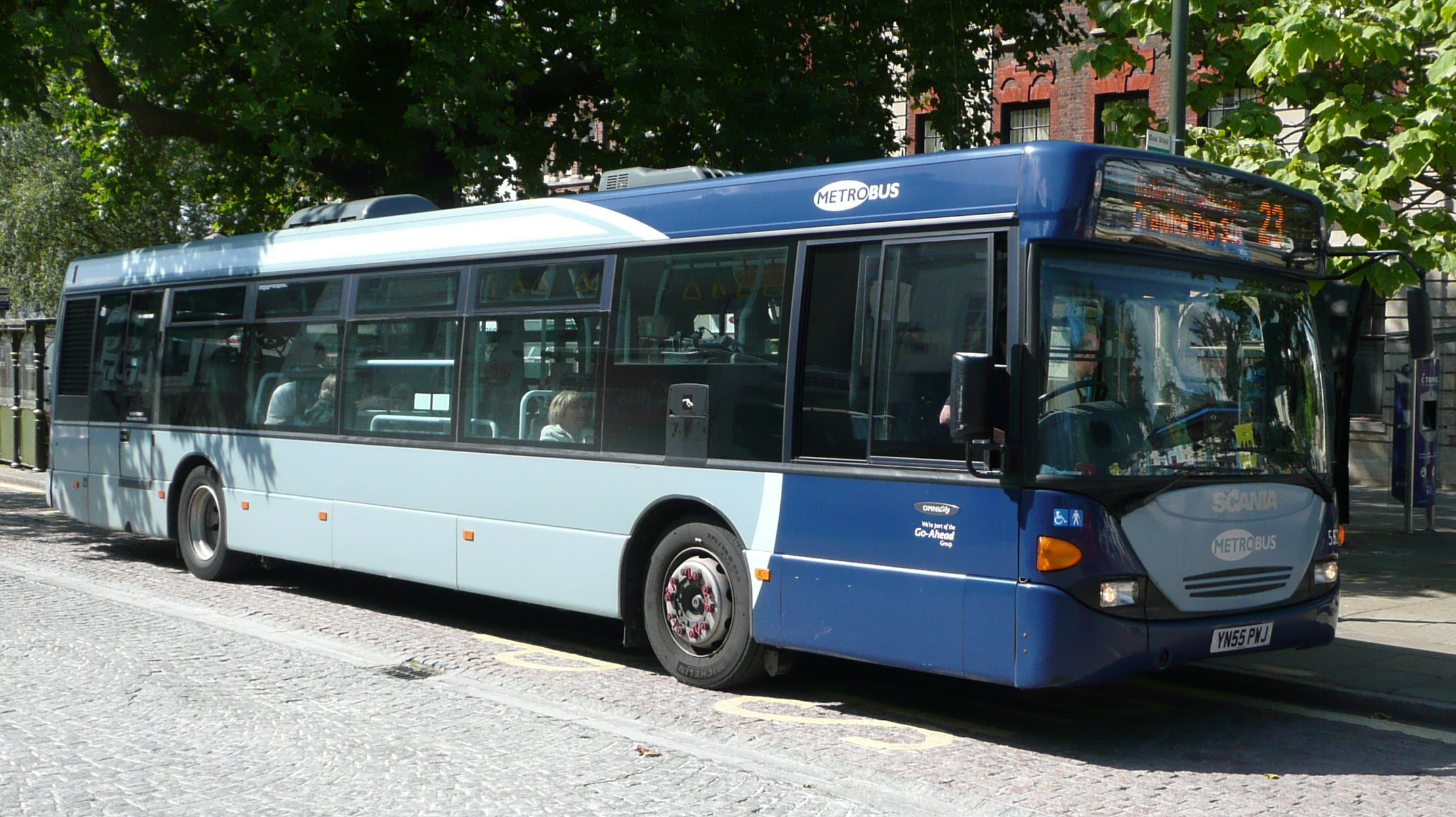 Metrobus' 552 (YN55 PWJ), a Scania N94UB OmniCity (or CN94UB?), in Horsham on route 23. Year built 2005.